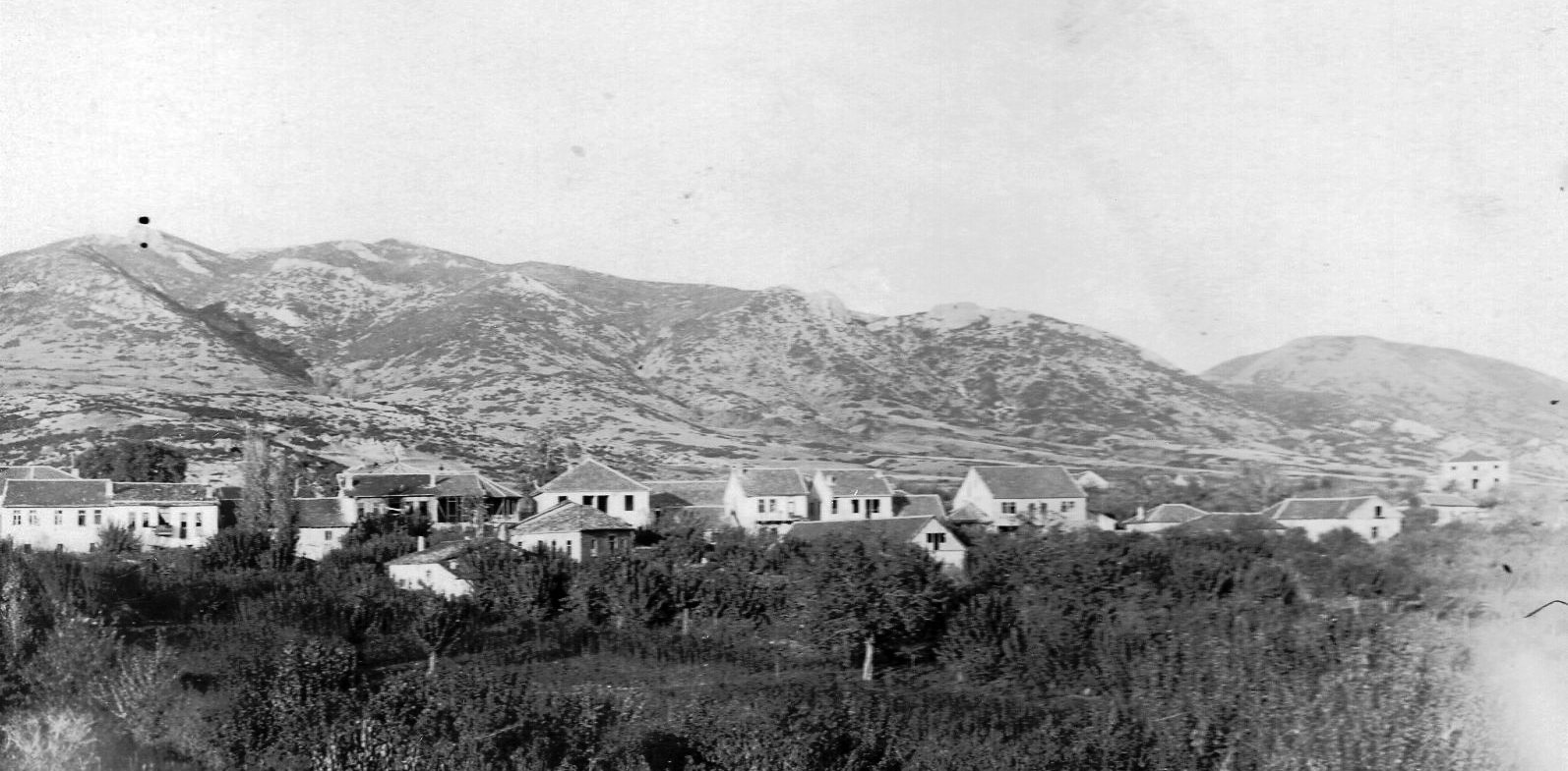 Valandovo, 1930's This media file is produced by Wikipedian in Residence in Category:Wikipedian in Residence at DARM in 2016.